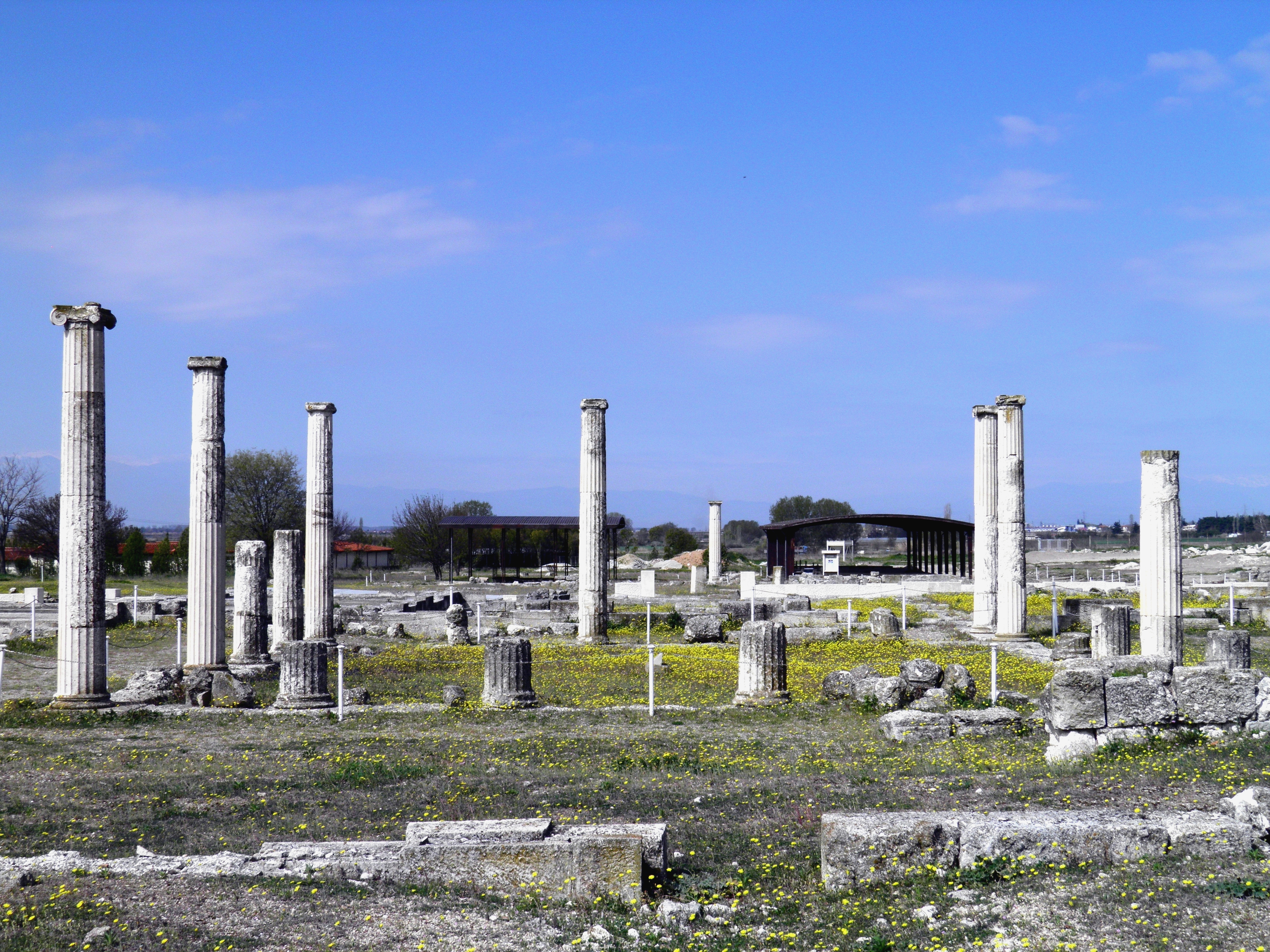 The house of Dionysos has an area of 3,160 square metres and occupies the entire width and the bigger part of the length of a building block. It consists of two parts, articulated around two central peristyle courtyards. The larger of these, 300 square metres in area, is situated in the south part of the house and has rooms for entertaining visitors arranged around three sides of it. A small courtyard in the north part with a restored ionic peristyle, is surrounded by the living room for th occupants of the house. The stone base of a staircase preserved in the north-east room attests to the existence of an upper storey on the north side of the small courtyard. Entrance is from a porch on the east side of the house, from which a wide door leads to the north part of it, and there is another entrance at the south. In the south part of the house there are two banquet rooms (andrones), which communicate with the courtyard by way of large antechambers. In the north-west part is the andron with the mosaic of the lion hunt. The scene occupies the center of the floor and is enclosed by a broad border of floral decoration. The big antechamber is paved with white and black pebbles forming lozenges. The threshold in front of the entrance to the andron is preserved with a mosaic depiction of a Centaur and Centauress. To the south of the andron with the lion hunt mosaic, is the andron with the mosaic of Dionysos, which fills the entire room. The god is depicting rinding on a panther and holding a thyrsos. The floor of the antechamber of this andron is covered with white and black pebbles arranged in concentric triangles. The threshold at the entrace to the andron is adorned with a mosaic of a griffin tearing a deer. The construction of the house of Dioysos is dated in 235-300 BC. All the mosaics of the house are exhibited in the museum.